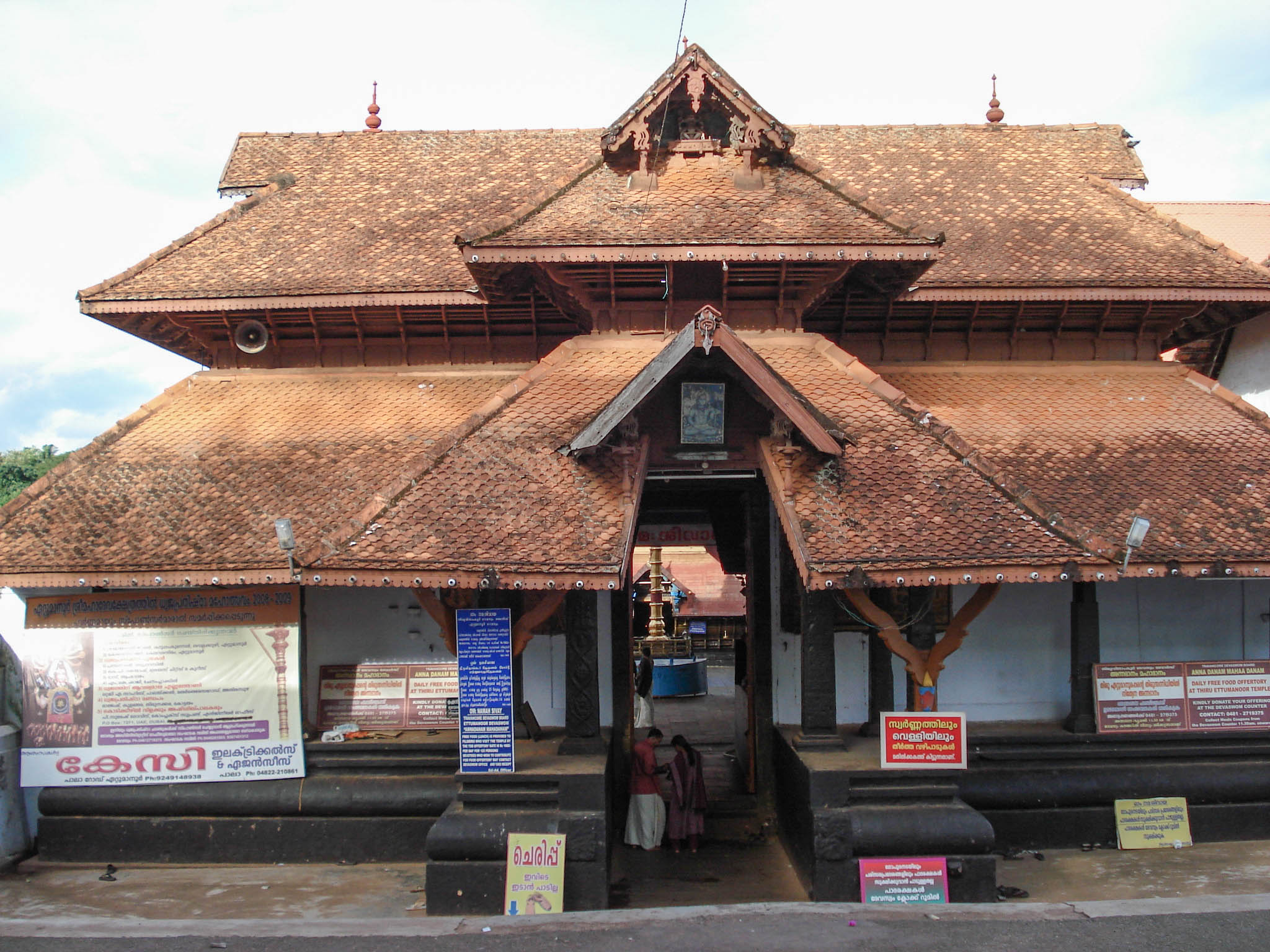 Ettumanoor temple north gate